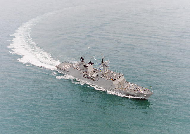 BNS Bongobondhu in the river Karnofuly, Chittagong, Bangladesh.